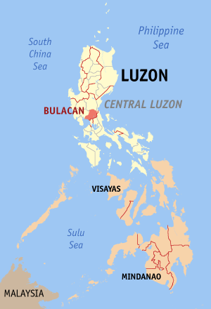 Map of the Philippines showing the location of Bulacan